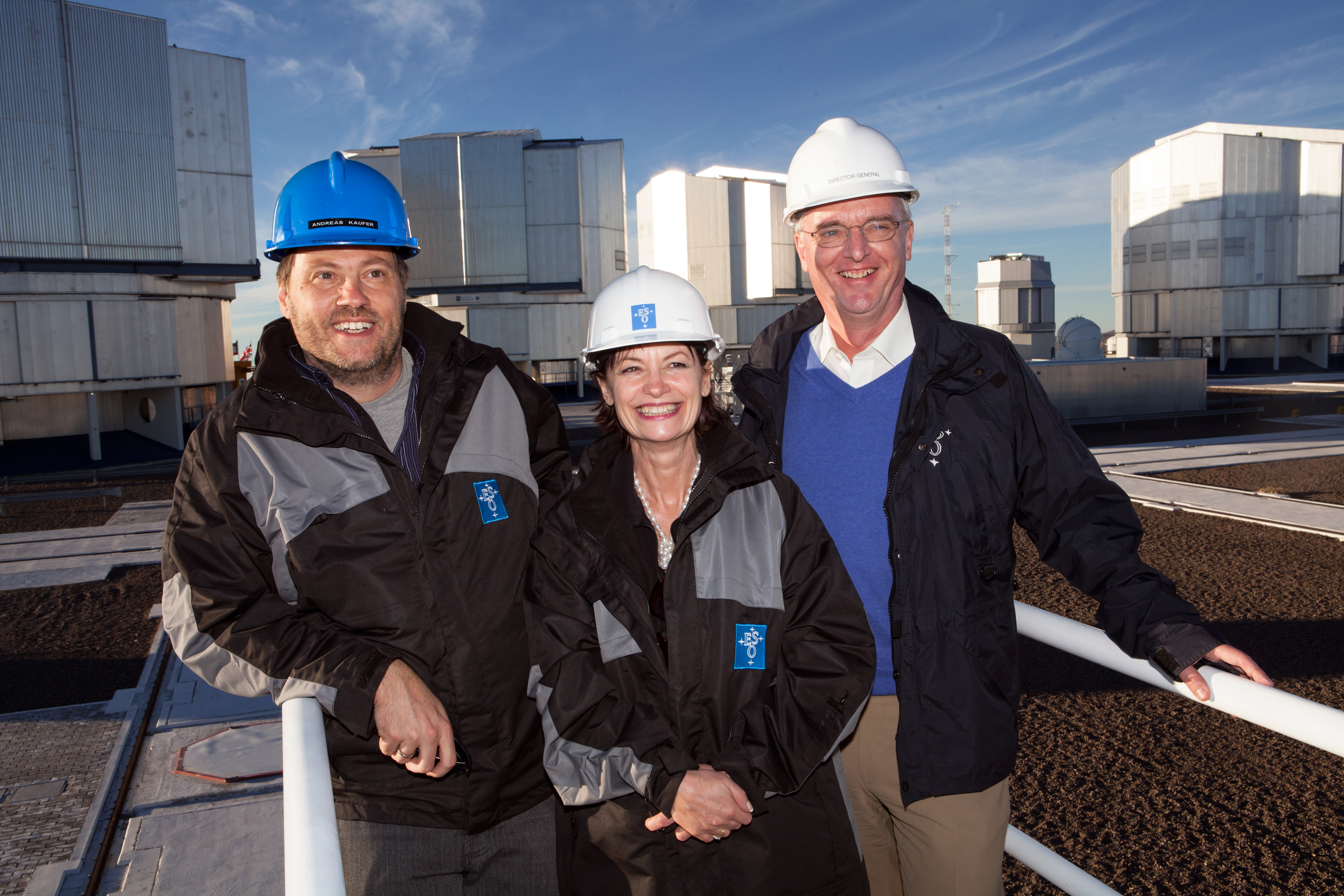 On 16 March 2013, the Chief Scientific Adviser to the European Commission, Prof. Anne Glover, visited ESO’s Paranal Observatory. Upon arriving, she was welcomed by ESO’s Director General, Prof. Tim de Zeeuw.